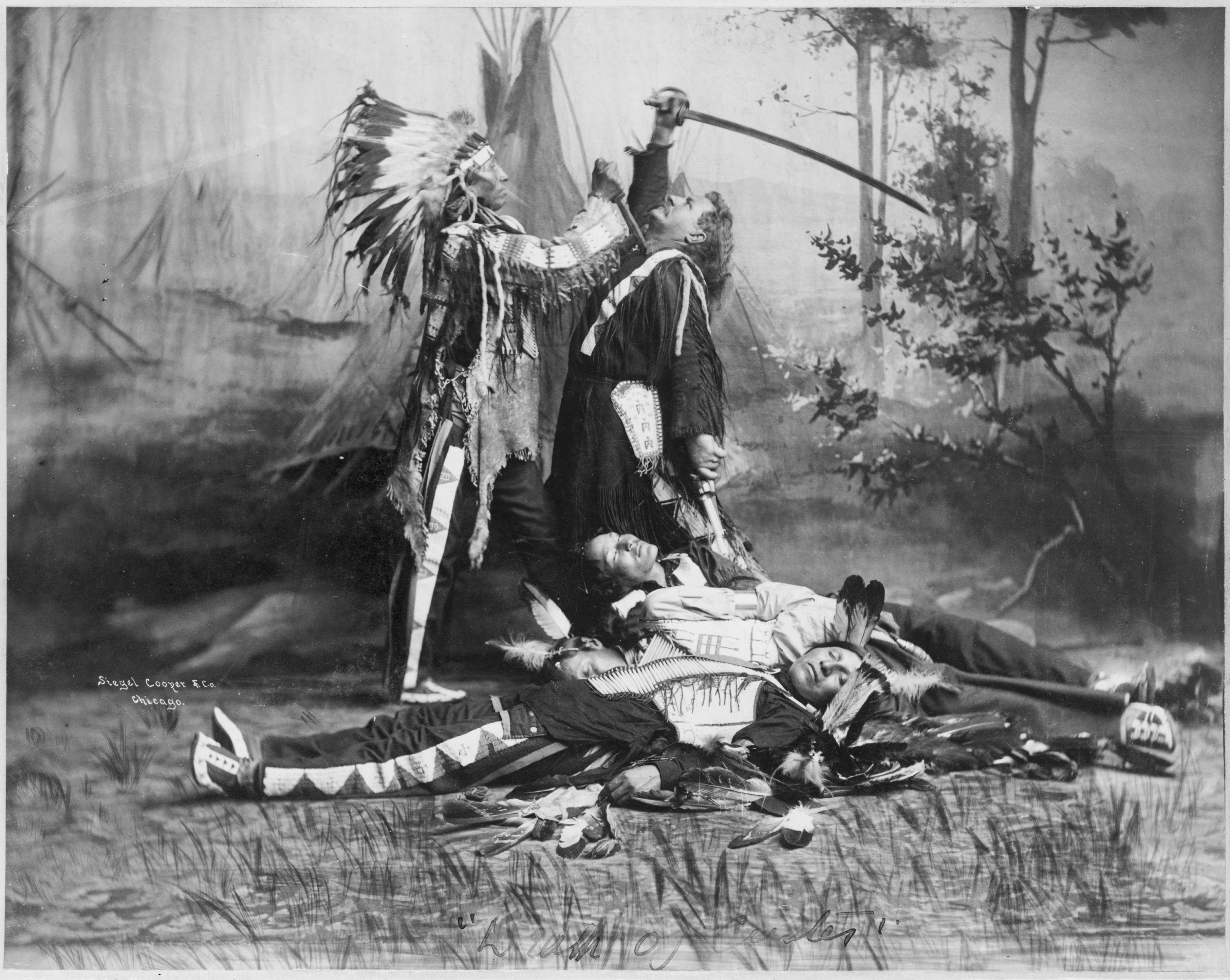 Dramatic portrayal of Native American man stabbing "Custer," with dead Native Americans lying on ground, in scene by Pawnee Bill's Wild West Show performers.